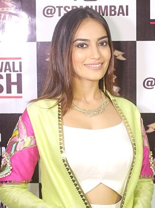 Surbhi Jyoti at Riddhi Dogra’s Pre-Diwali bash at The Stadium Bar